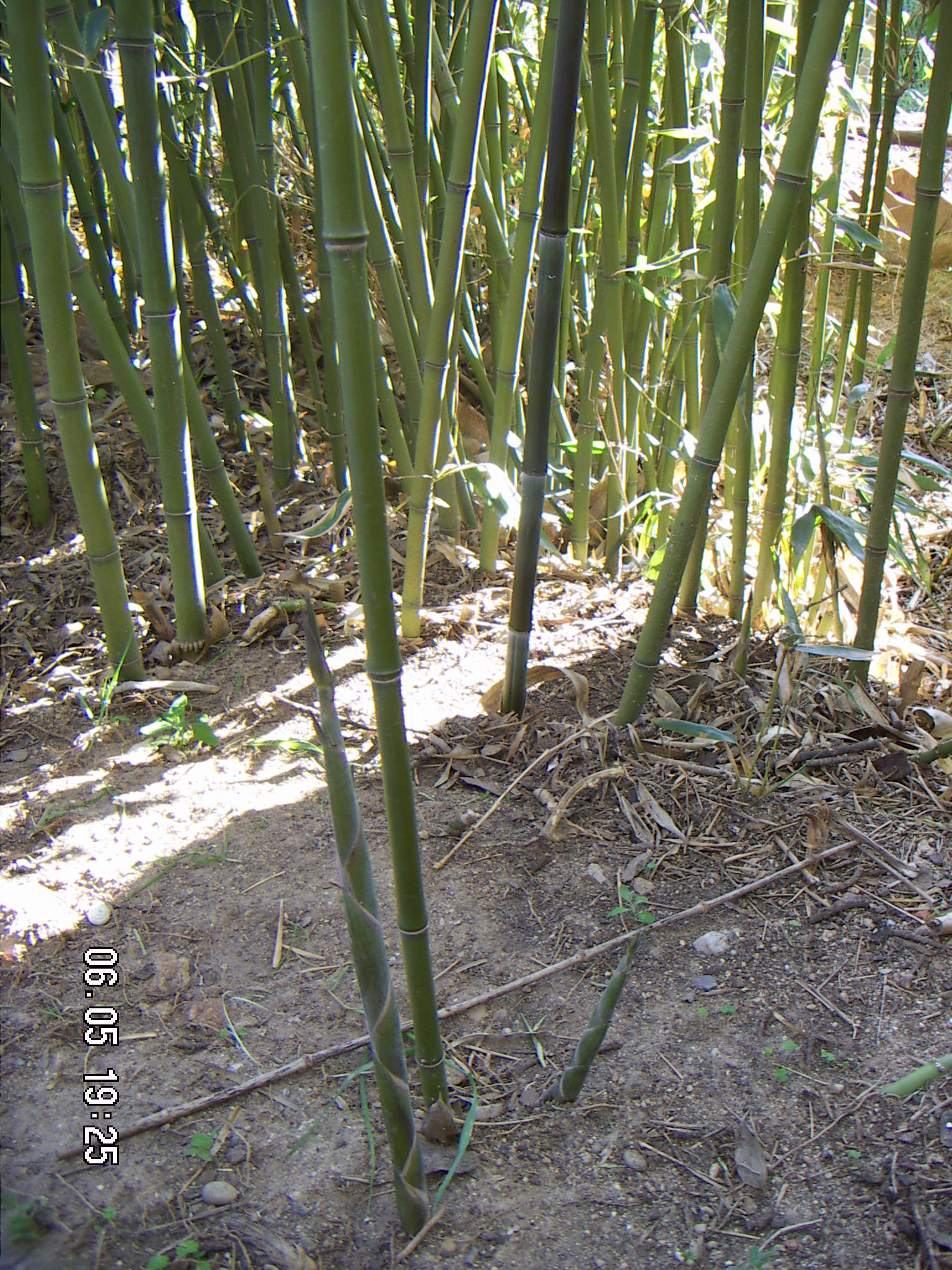 Bambú Phyllostachys bissetii